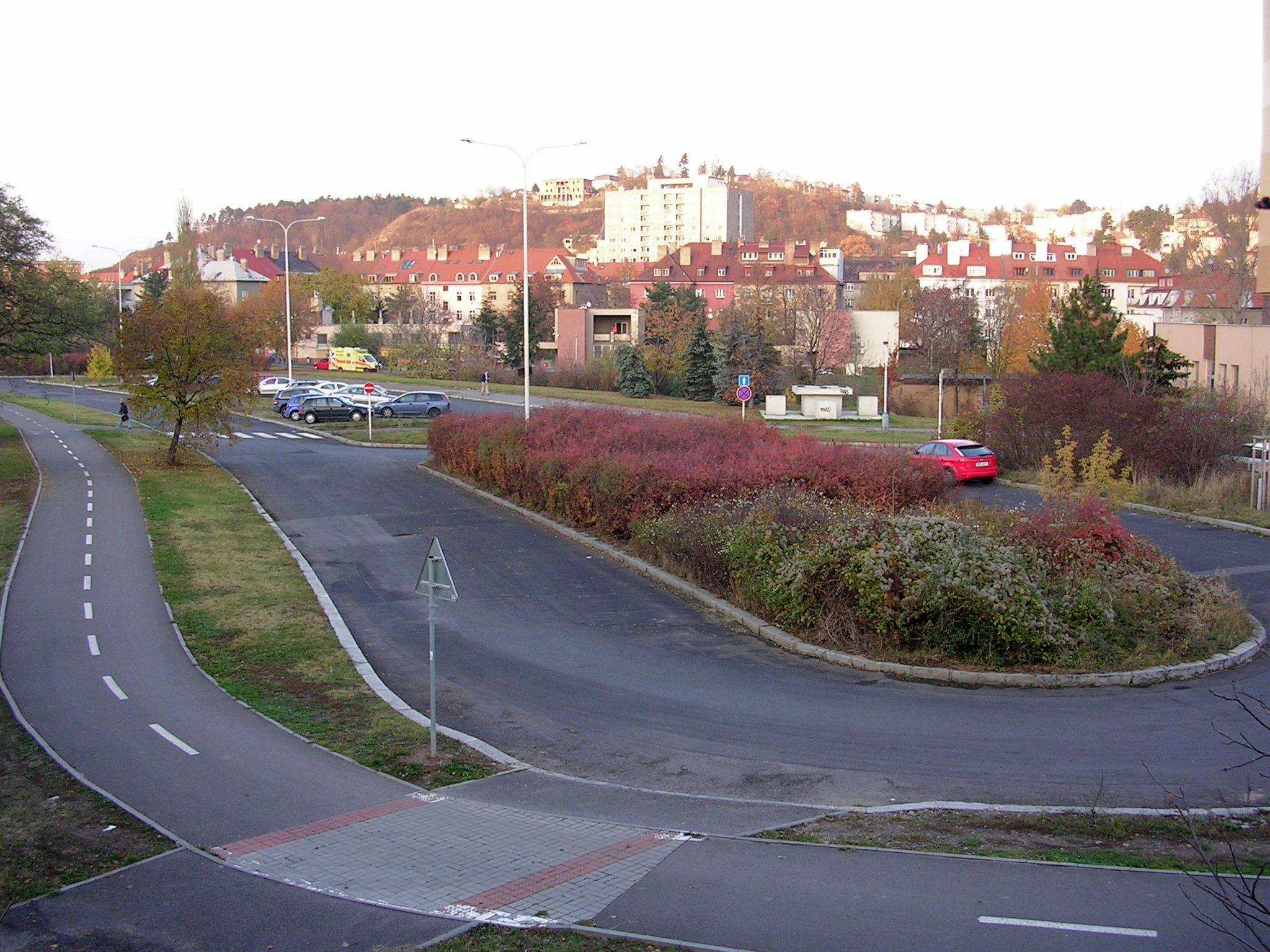 Braník, Prague.